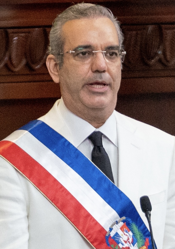 Secretary of State Michael R. Pompeo attends the inauguration ceremony of Dominican President Luis Abinader in Santo Domingo, Dominican Republic, on August 16, 2020.